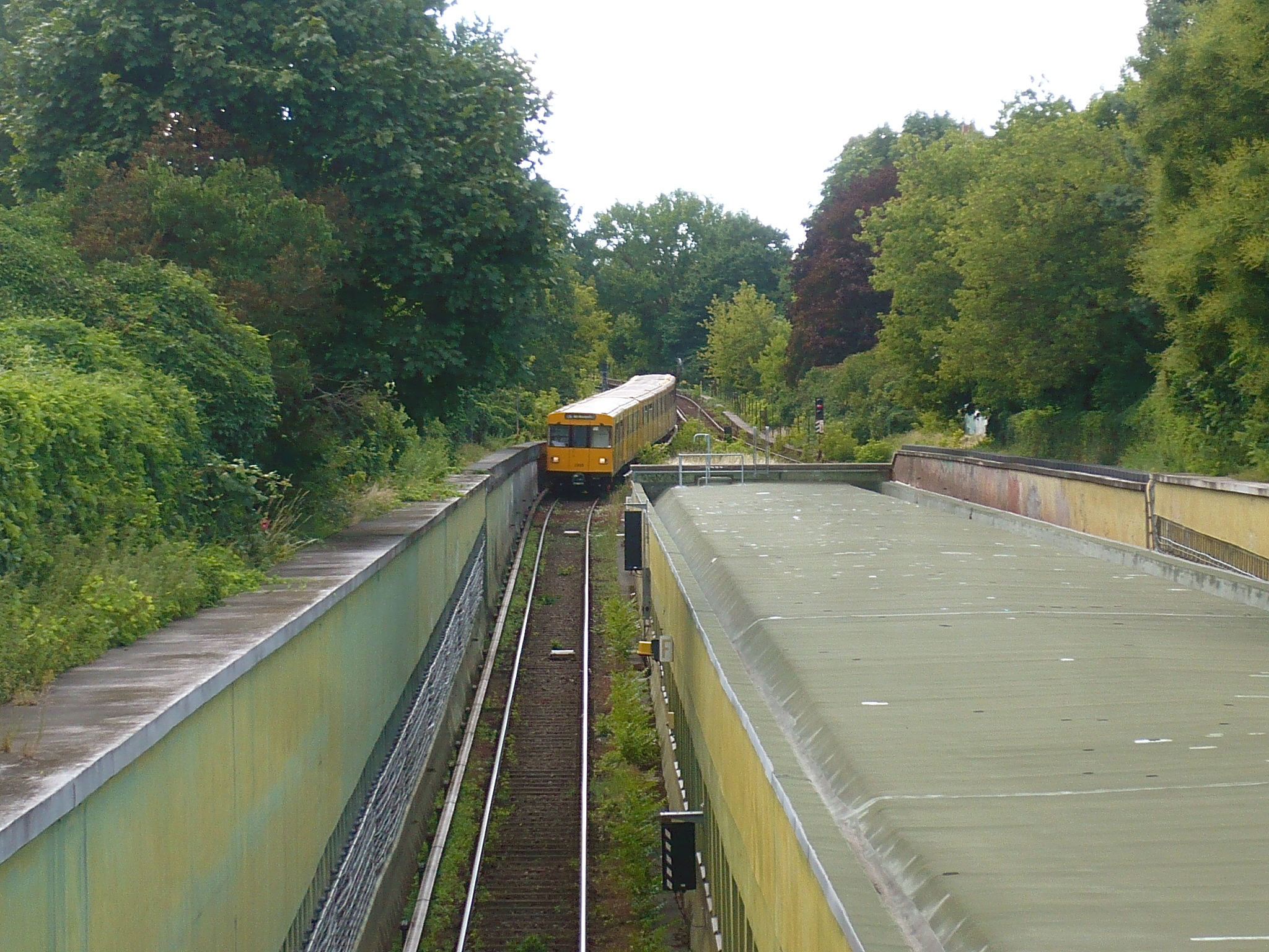 Ramp just north of Kurt-Schumacher-Platz U-Bahn station, where U6 line goes overground; Berlin, Germany